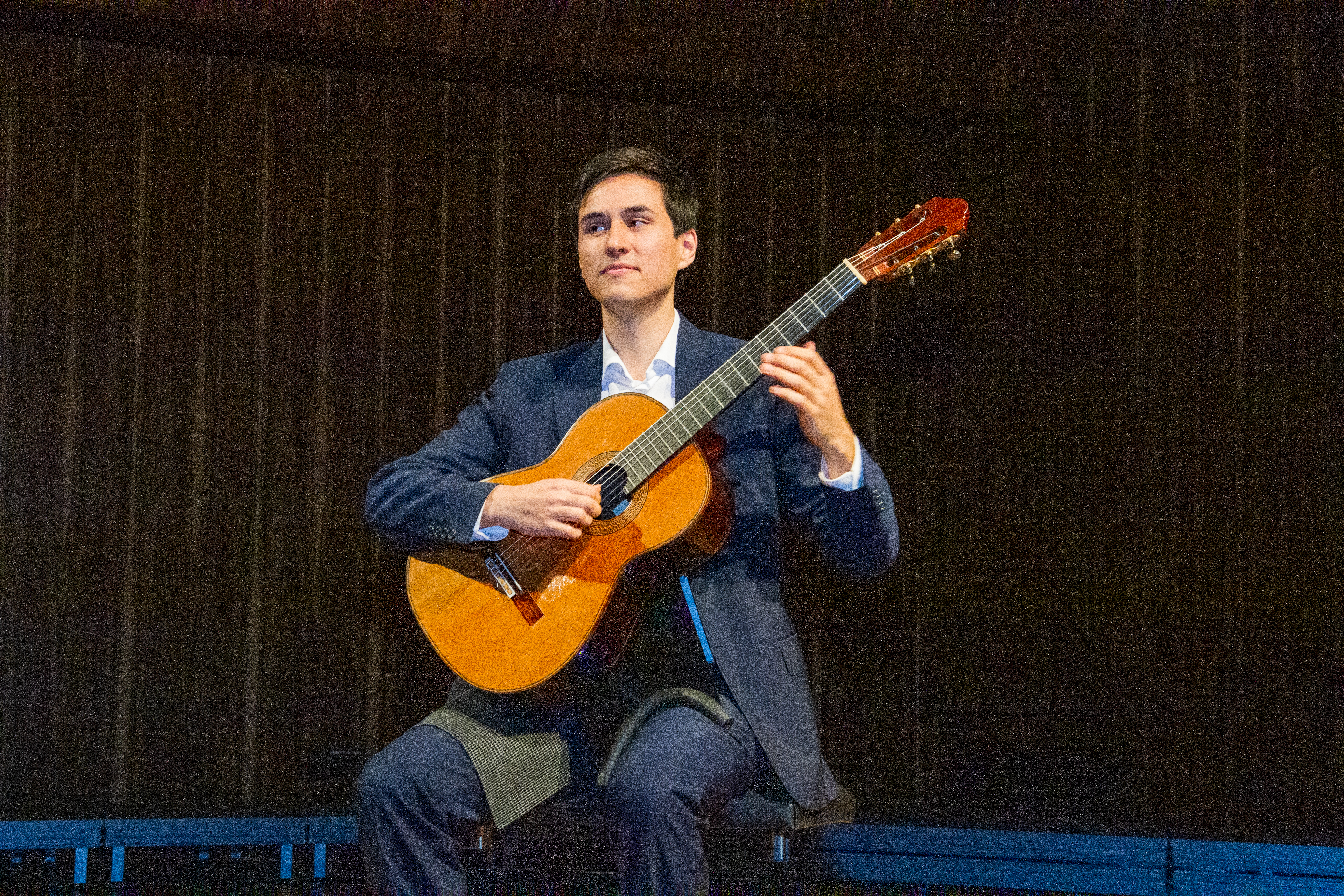 Jesse Flowers at 20. Darmstädter Gitarrentage 2019.